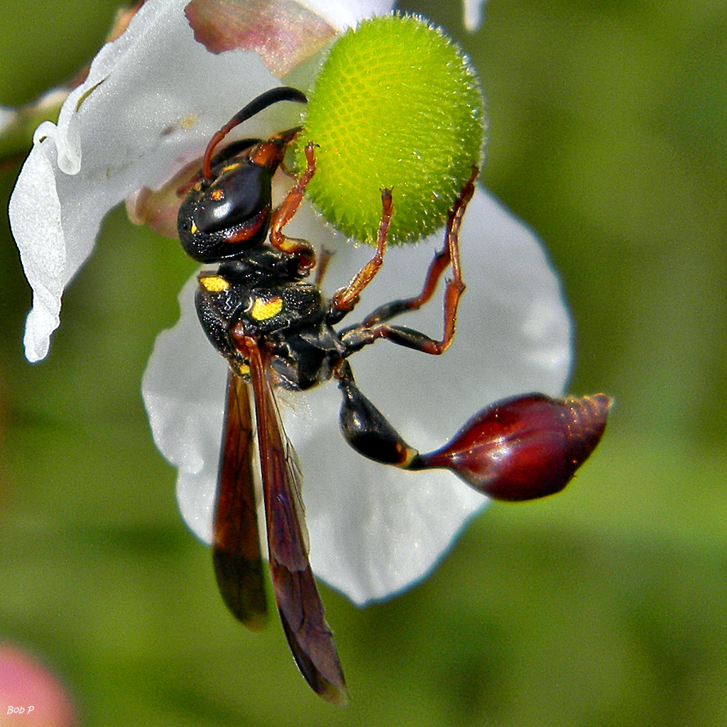 Taken yesterday during a brief sunny break in days of heavy rain and overcast. This friendly mason wasp (with size 00 waistline) visited a duck potato blossom while trying to catch up on her chores. Less than 10 minutes later, the sun was gone and it rained all day. It's still raining this morning. Someone please point me toward the Mojave. Juno Dunes Natural Area (south). Here is a page with TMI for those who want more information